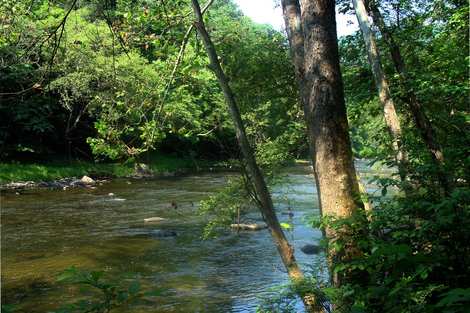 Summer along the Bluestone River.